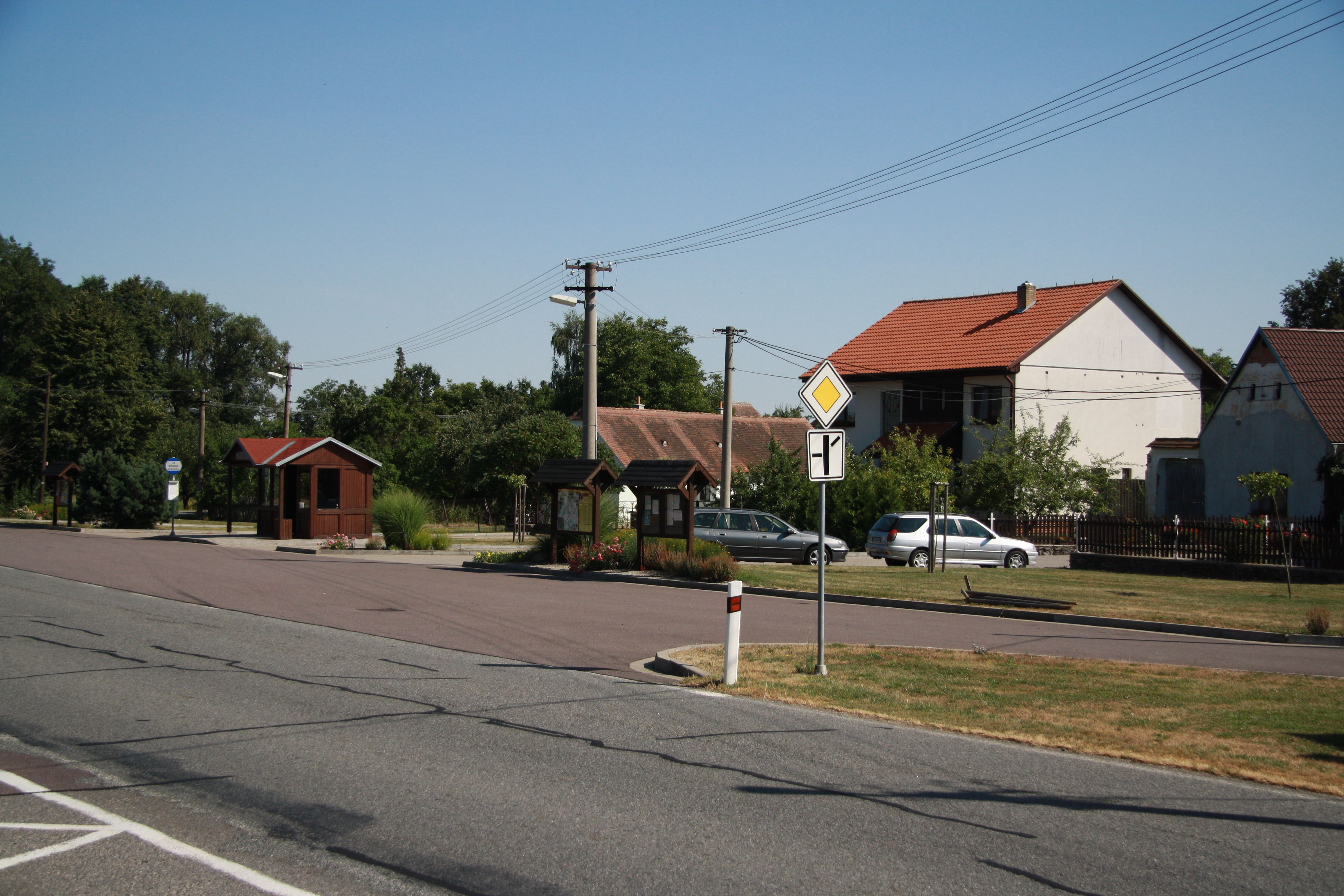 Center of Dědice, Třebíč District.